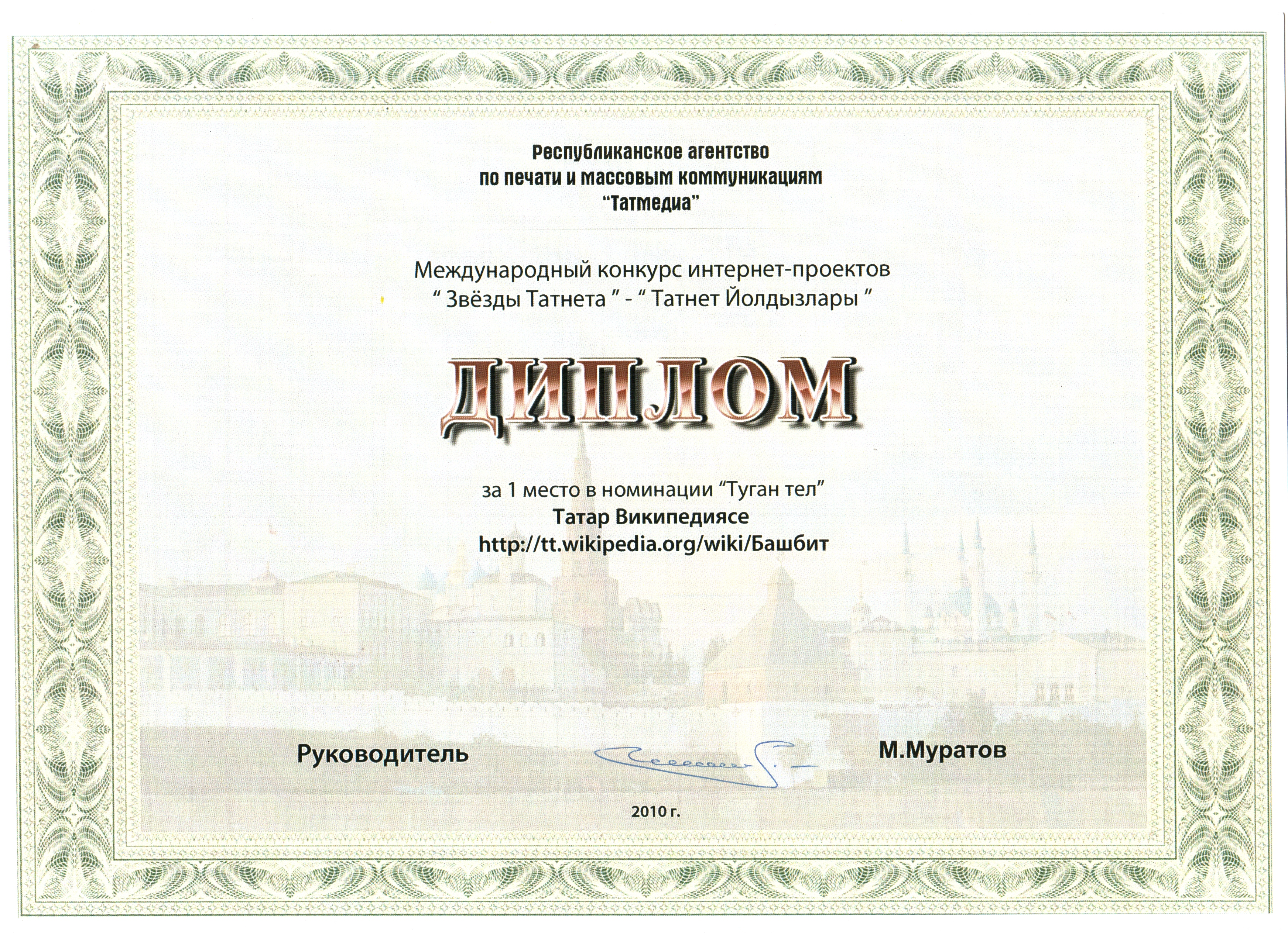 The diploma for the first place in a nomination «Туган тел» ("Native language") in the International competition of Internet projects «Татнет Йолдызлары» («Stars of Tatnet»).